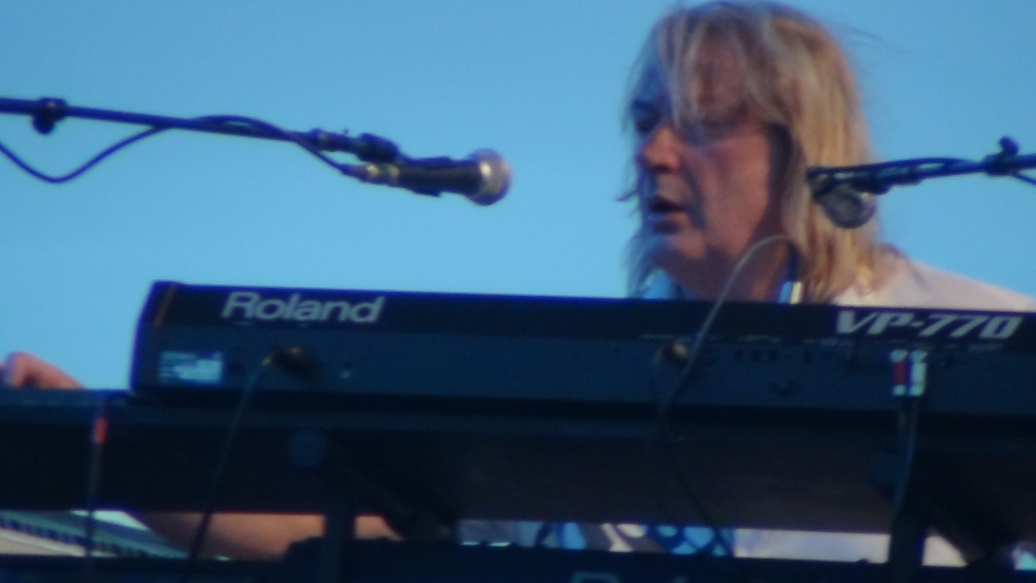 Keyboardist Geoff Downes performing at the Lewiston Art Park in Lewiston, NY, 2012.